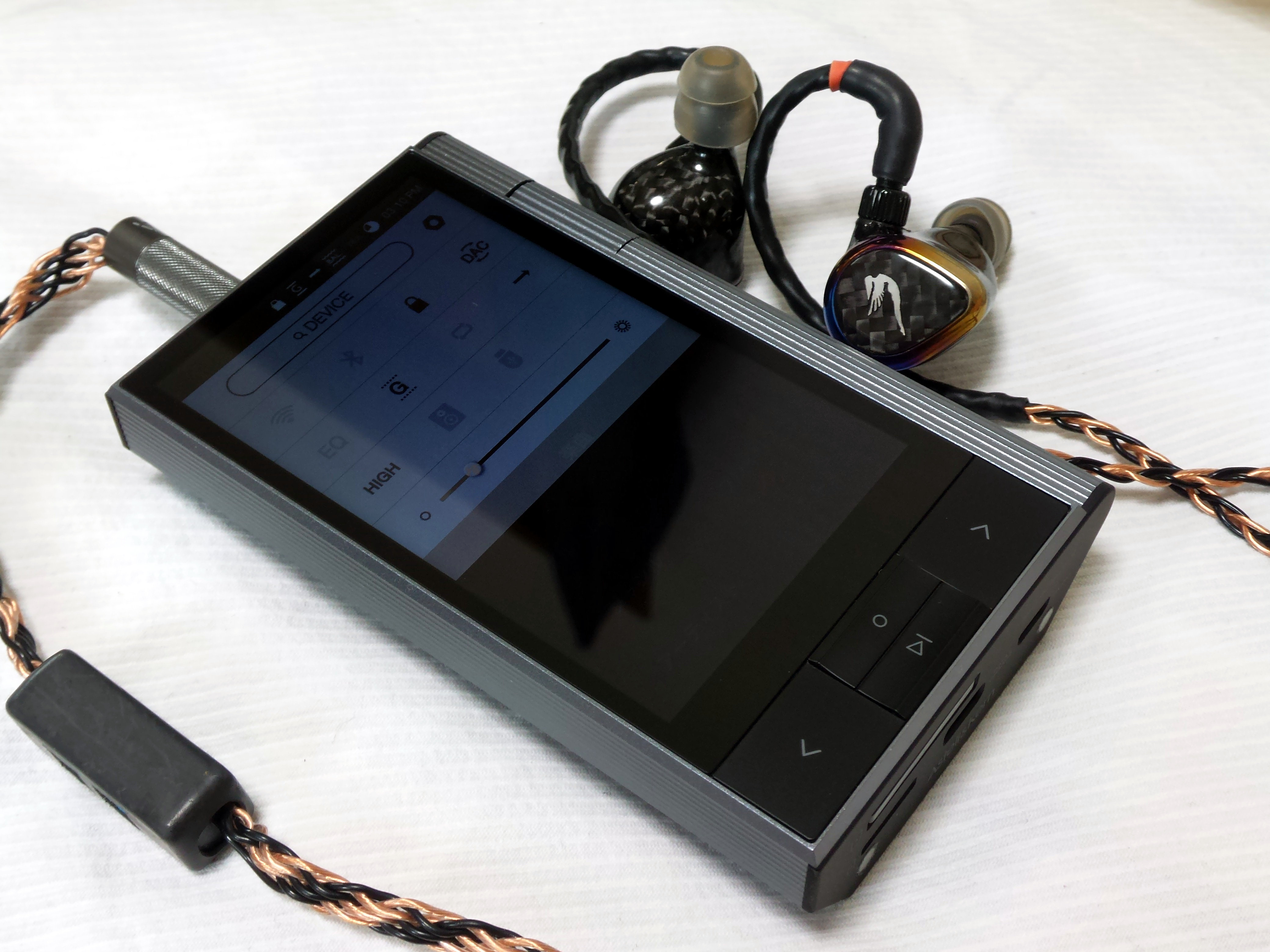 Astell&Kern KANN and JH audio THE SIREN SERIES Layla Universal Fit 2018年4月撮影 撮影者：Kansai explorer